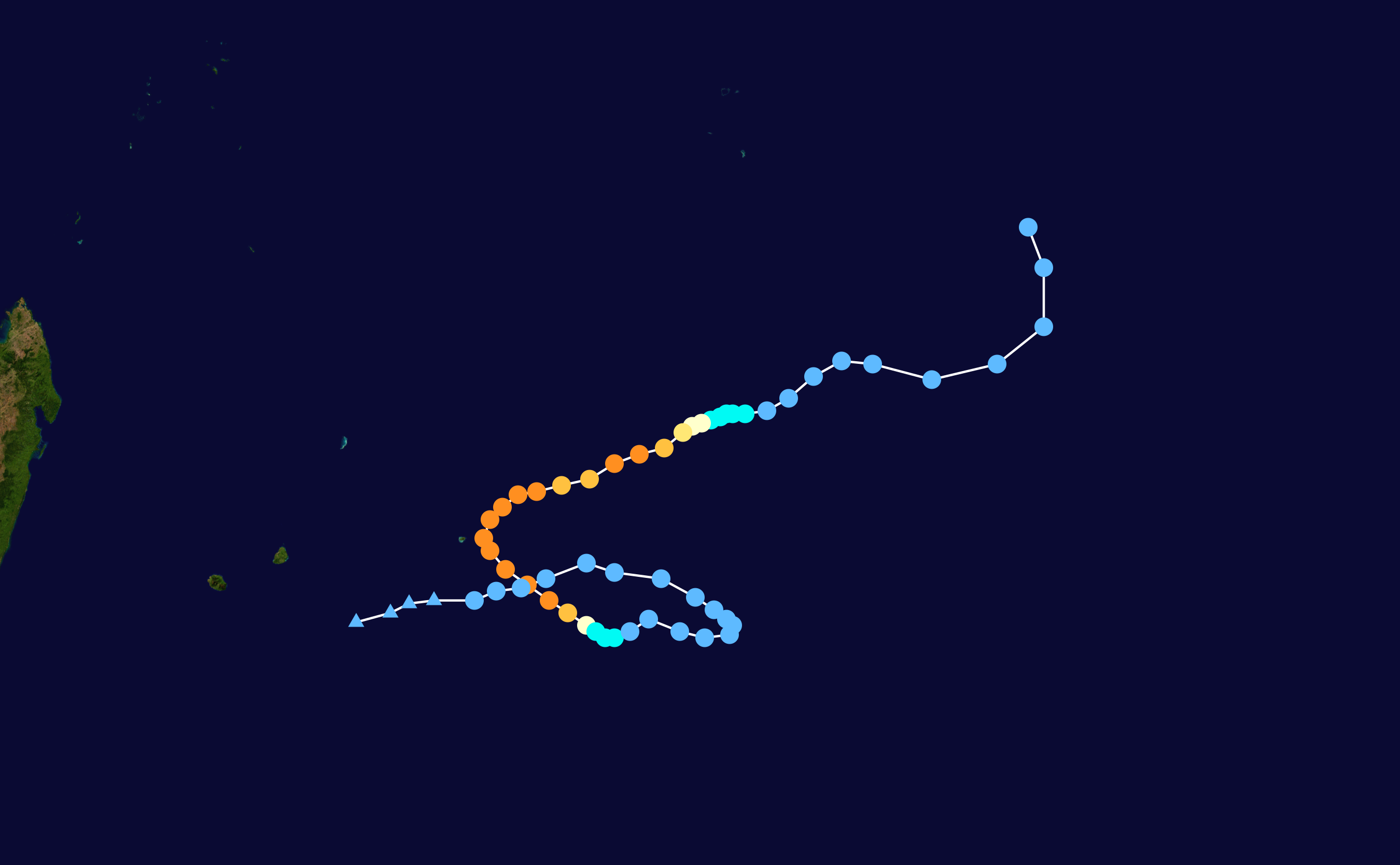 Track map of Tropical Cyclone Amara of the 2013–14 South-West Indian Ocean cyclone season. The points show the location of the storm at 6-hour intervals. The colour represents the storm's maximum sustained wind speeds as classified in the Saffir–Simpson scale (see below), and the shape of the data points represent the nature of the storm, according to the legend below. Saffir–Simpson scale Tropical depression≤38 mph≤62 km/h Category 3111–129 mph178–208 km/h Tropical storm39–73 mph63–118 km/h Category 4130–156 mph209–251 km/h Category 174–95 mph119–153 km/h Category 5≥157 mph≥252 km/h Category 296–110 mph154–177 km/h Unknown Storm type Tropical cyclone Subtropical cyclone Extratropical cyclone / Remnant low / Tropical disturbance / Monsoon depression